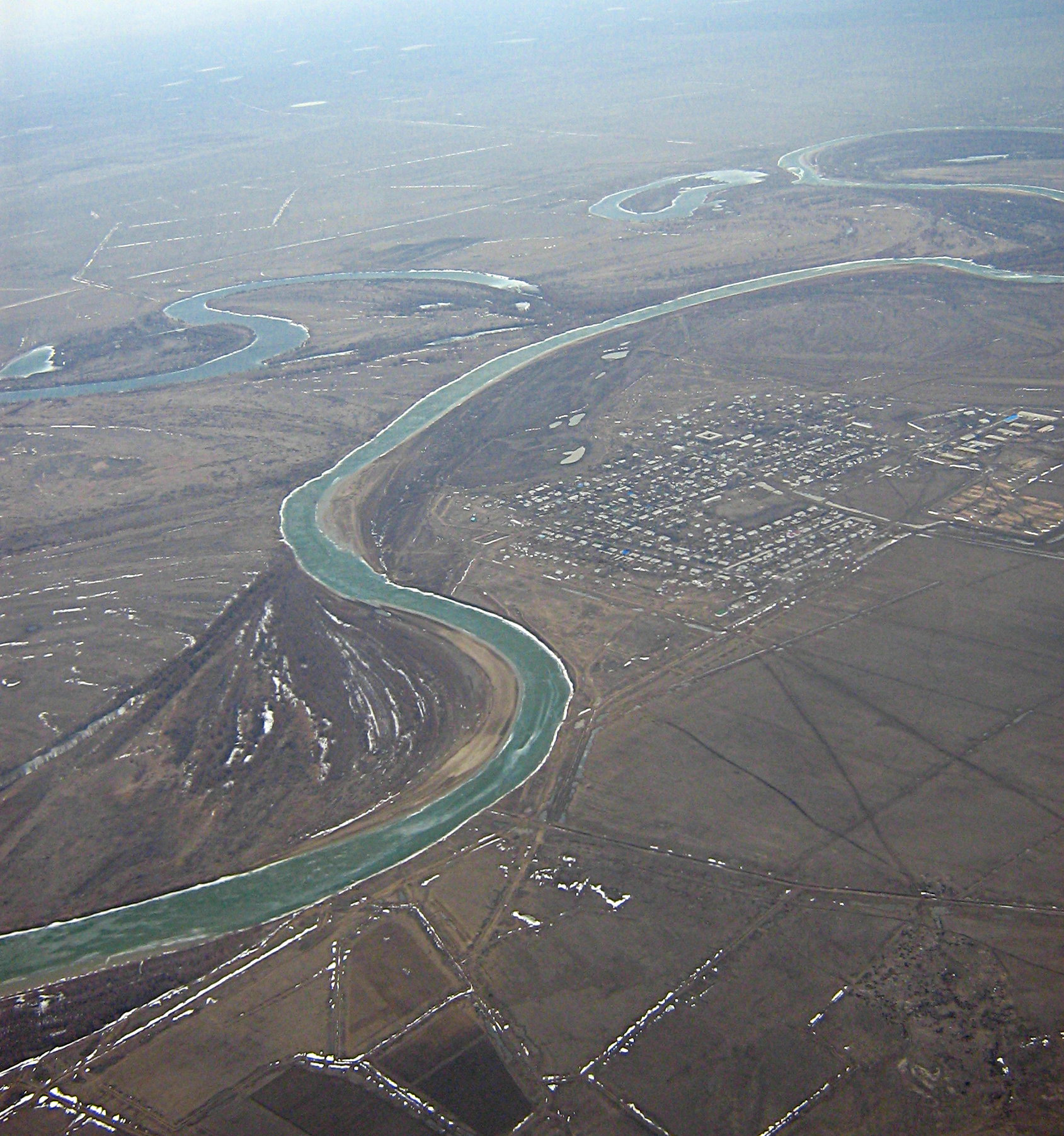 Ural river between Uralsk and Atyrau, Kazakhstan. North 47.446665, East 51.822681